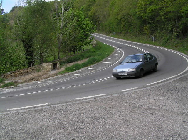 Steep bend on Sutton Bank